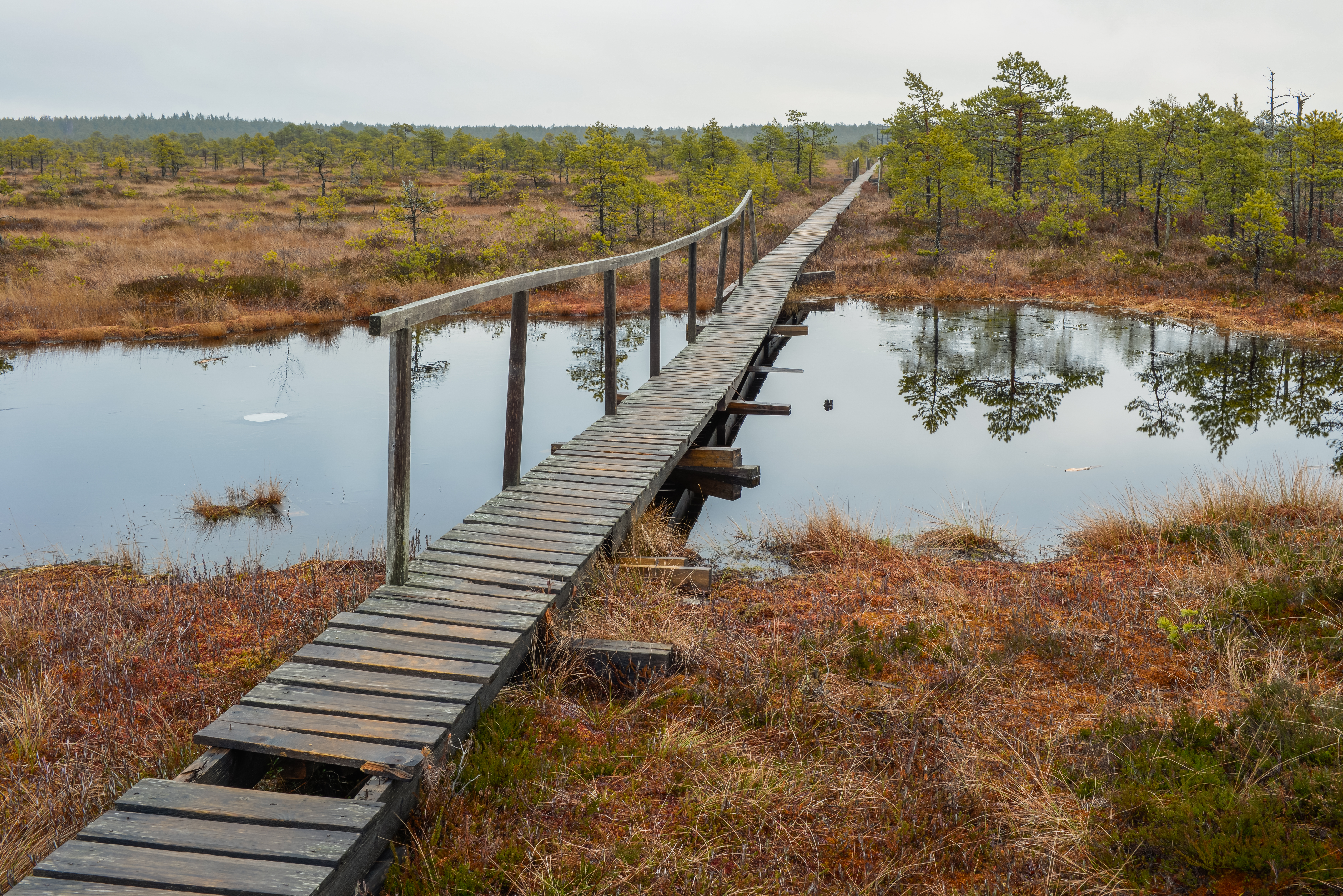 Boardwalk at Männikjärve bog in Endla Nature Reserve, Estonia